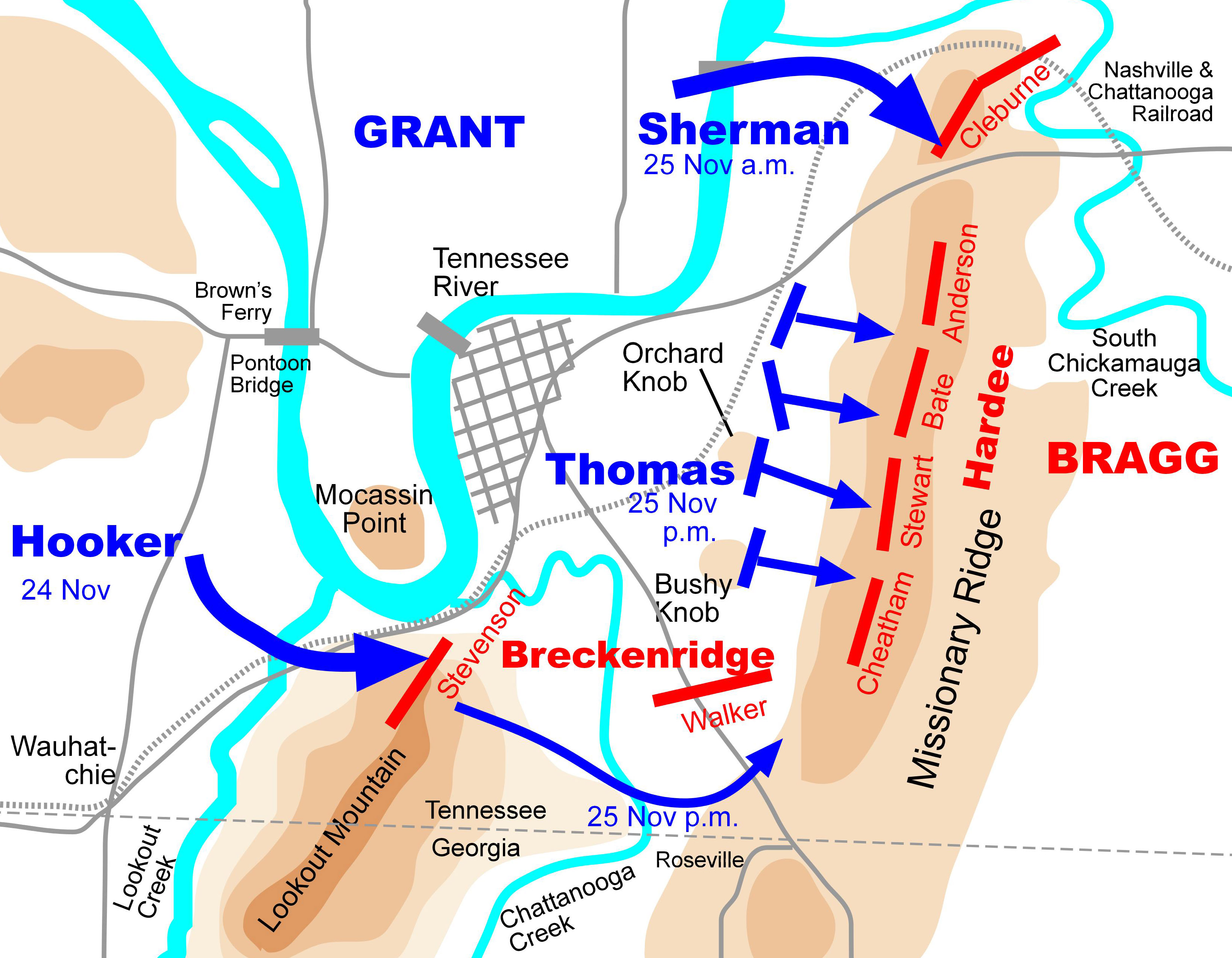 Drawn by Hal Jespersen in Macromedia Freehand. Source file available in JPEG version replacing PNG version due to printing problems from some browsers.